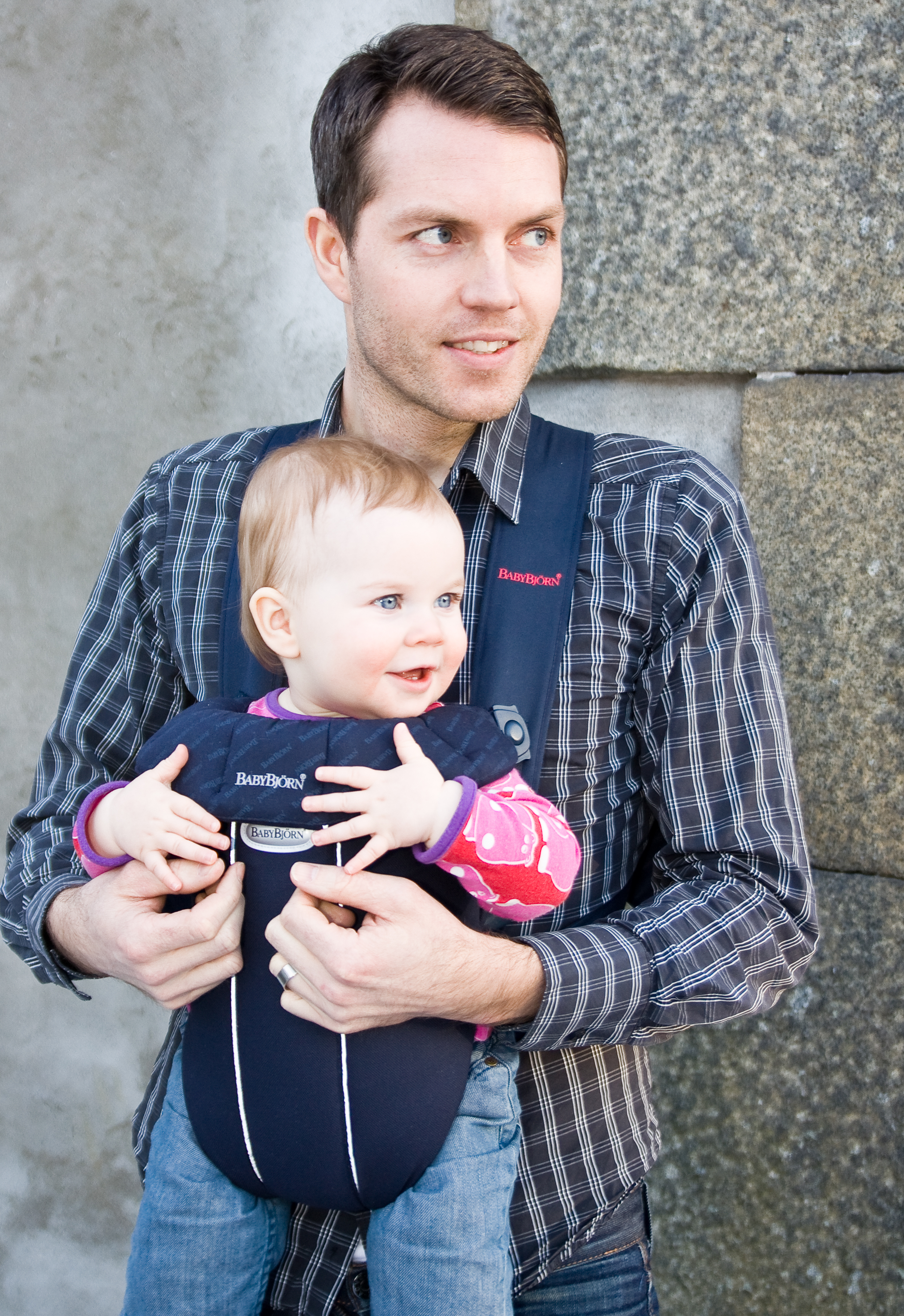 Babybjorn